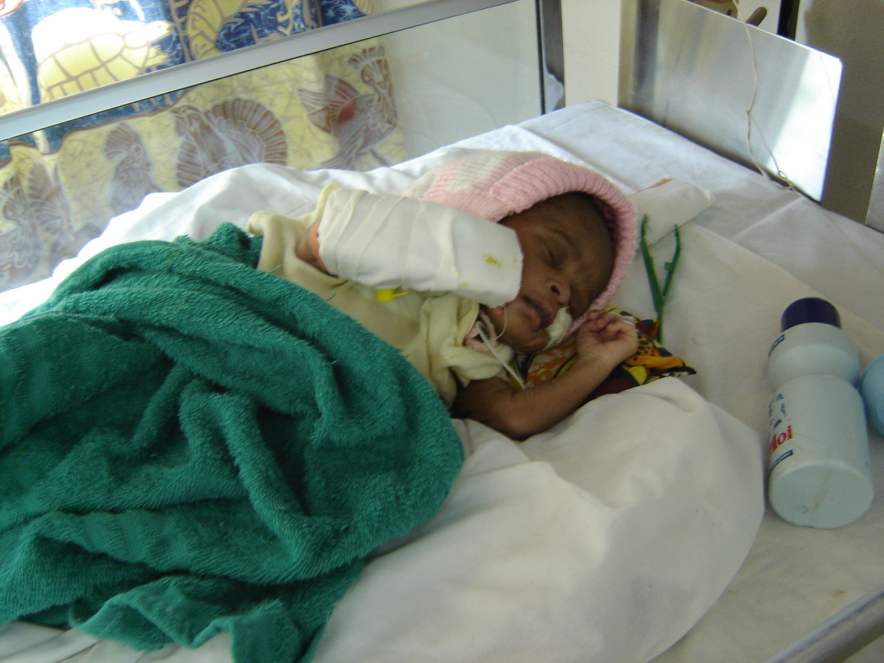 Paedriatric hospital in N'Gaoundere, Cameroon.